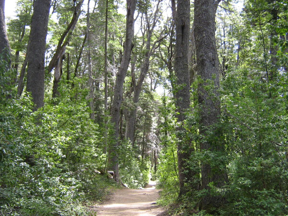 A coihue forest, in the Quetrihué peninsula, Neuquén, Argentina, and the path that crosses it.